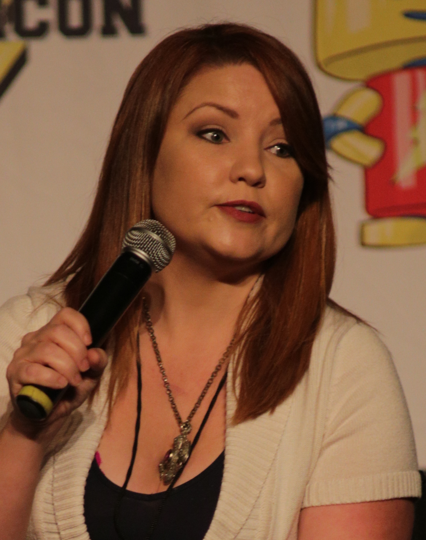 Jamie Marchi at the Raleigh Supercon in 2017